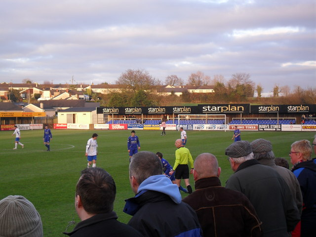 Spectating at Stangmore Park, Dungannon Intently watching a game between Dungannon Swifts and Glenavon.